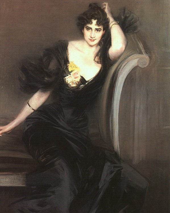 Lady Colin Campbell (Gertrude Elizabeth Blood)(1857-1911)